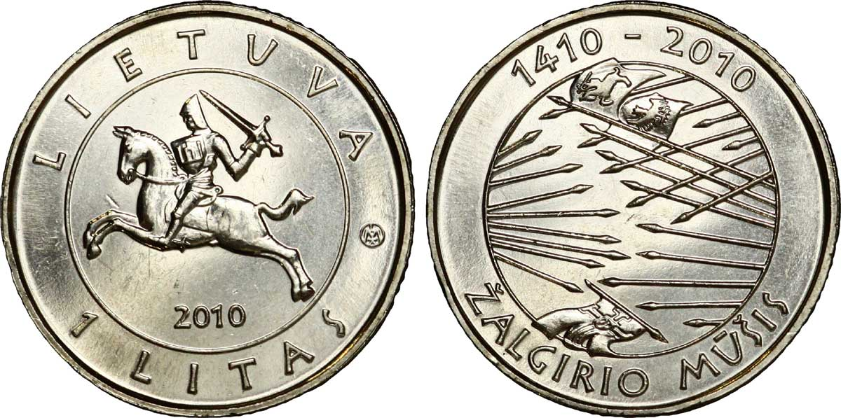 Lituanie, 1 Litas célébrant le 600e anniversaire de la bataille de Grunwald, 2010. Cette monnaie commémore le 600e anniversaire de la bataille de Grunwald aussi appelée 1ère bataille de Tannenberg. Le 15 juillet 1410, cette bataille opposent les chevaliers Teutoniques aux troupes polonaises du roi Ladislas II et à l’armée lituanienne du grand-duc Vytautas. C’est une terrible défaite pour l’ordre, qui perd aussi son grand maître, Ulrich von Jungingen, tué au combat. A l’issue de la bataille, la Pologne récupère la Prusse occidentale et devient la grande puissance régionale..